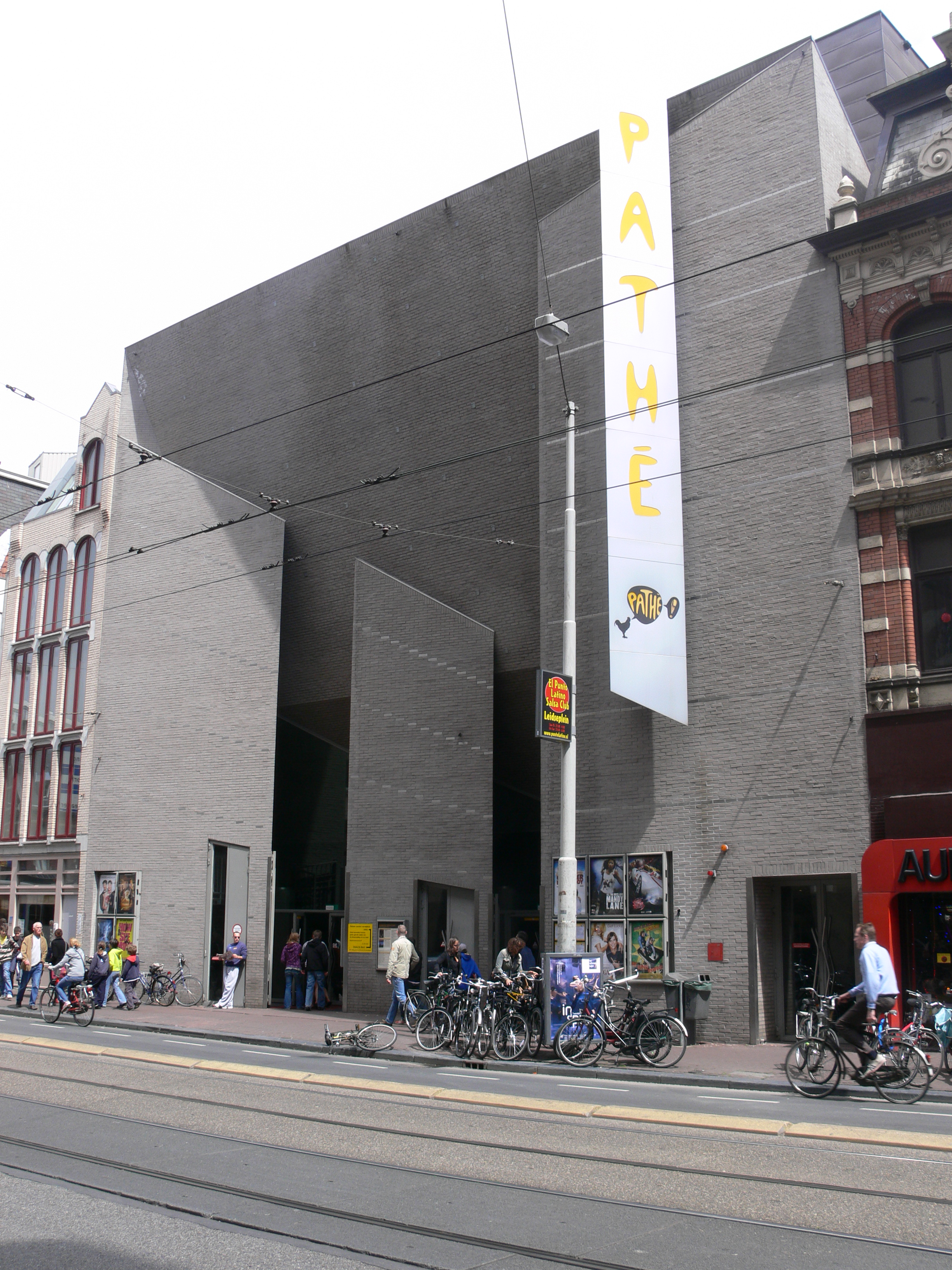 Pathé De Munt, a new Pathé cinema (near the Pathé Tuschinski theatre), Vijzelstraat, Amsterdam